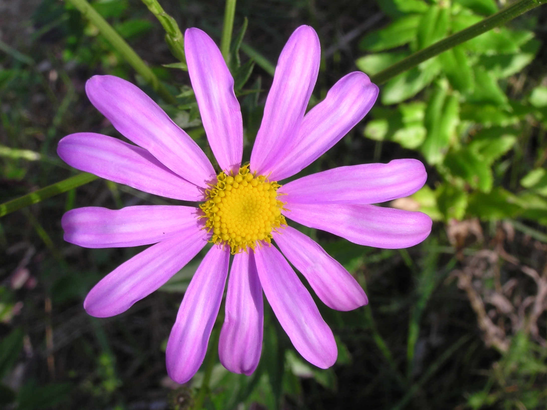 Mauve/purple flower with yellow centre. A South African plant commonly called 'Holly leaved senecio' and sometimes 'Pink ragwort' in New Zealand. It grows in cleared areas without shade, common along roadside embankments etc, slightly prickly holly shaped leaves, pink/mauve daisy flowers (a similar species Senecio elegans has deep purple flowers).